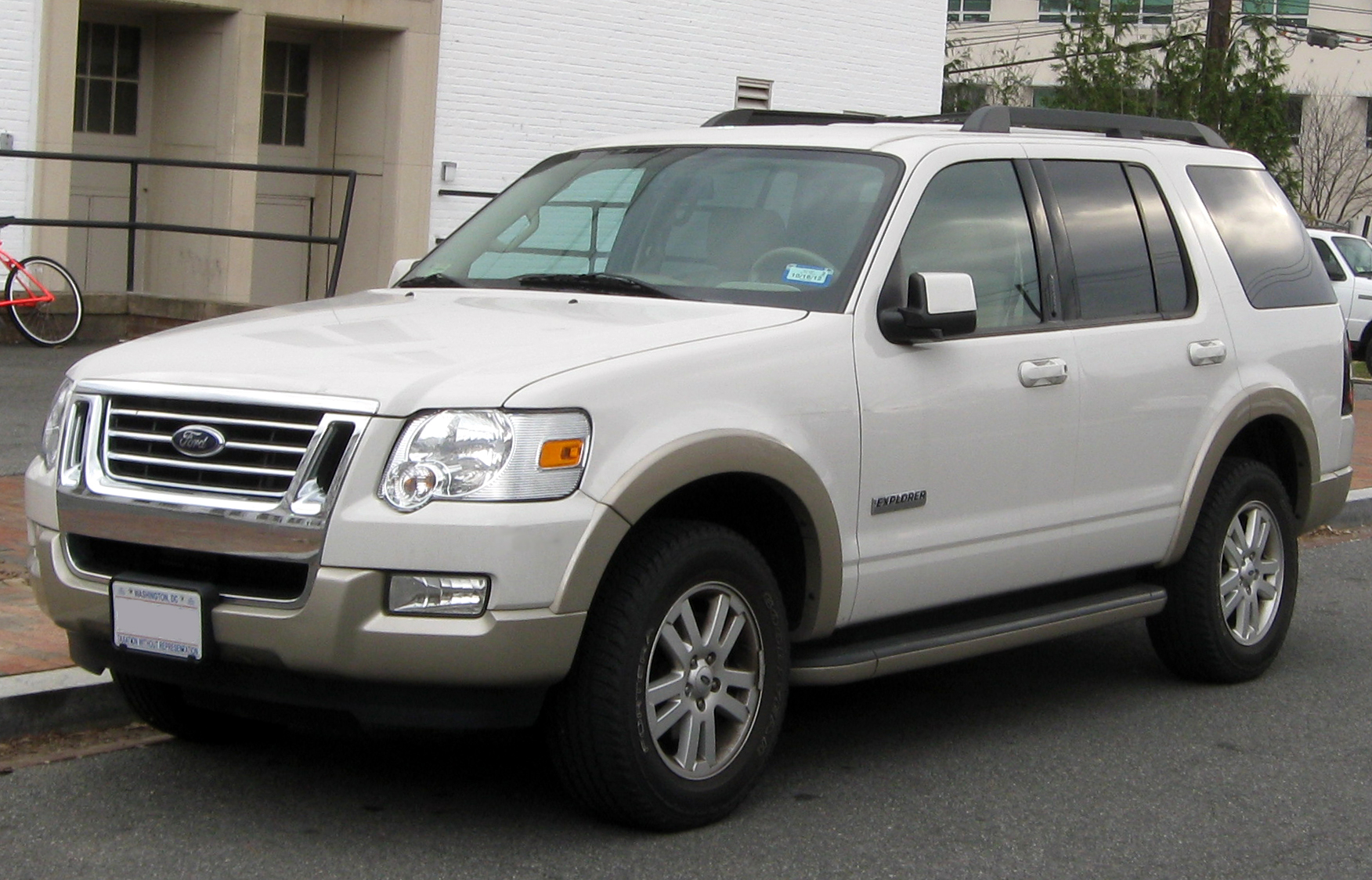 2006-2010 Ford Explorer photographed in Washington, D.C., USA.